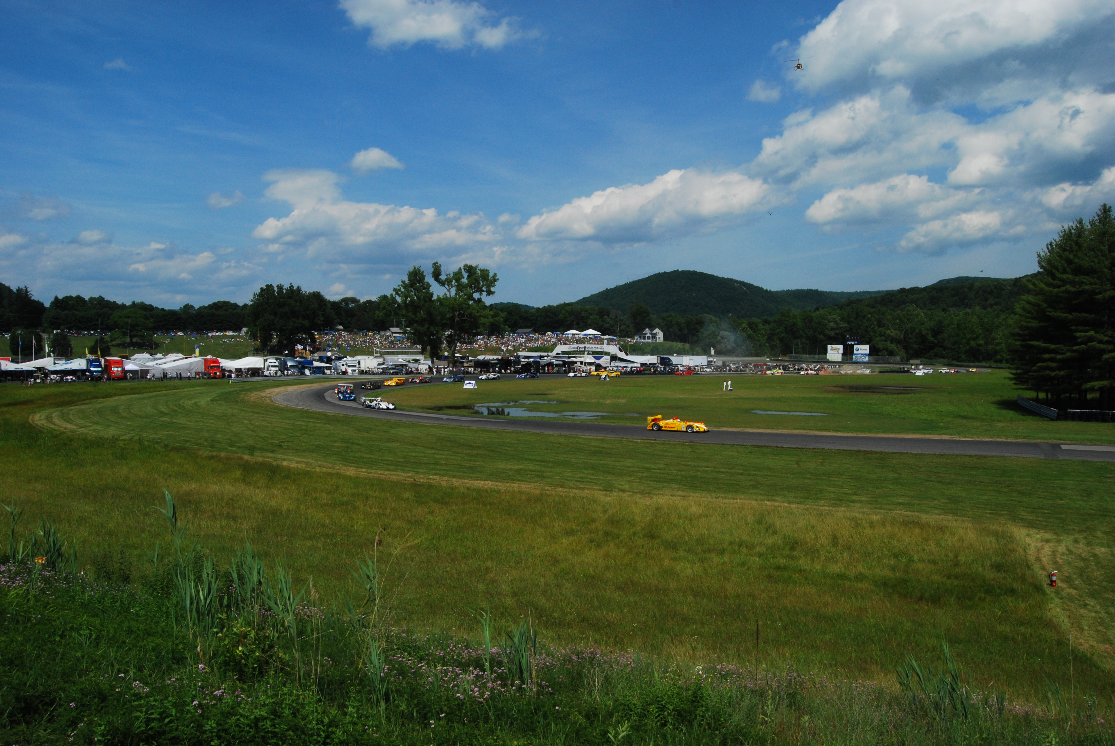 Romain Dumas in the #7 Penske-DHL Porsche RS Spyder leads the field out of Big Bend and through the Esses at Lime Rock Park in the ALMS Northeast Grand Prix, 2007